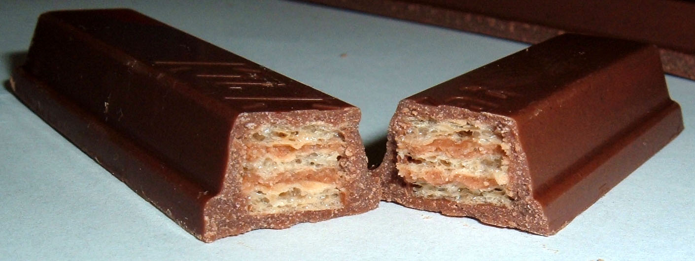 Original flavor KitKat purchased in Atlanta, GA, USA in Feb. 2005